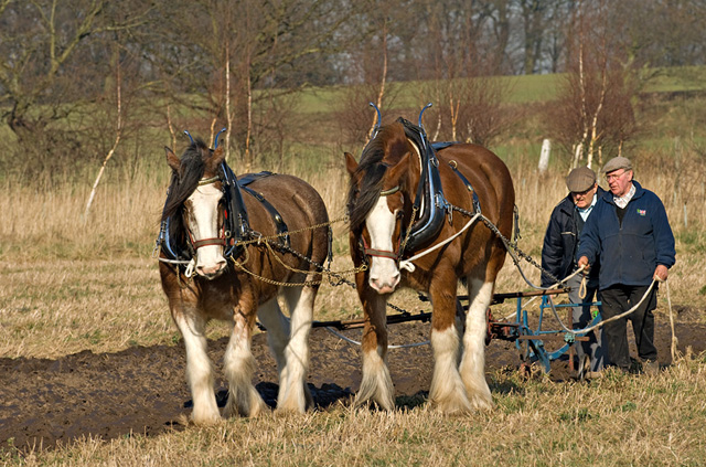 Ploughing the old way Ploughing competition at Fir Tree Farm